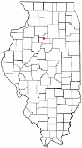 Category:Illinois_city_locator_maps Summary Location of Henry within Marshall County and Illinois.